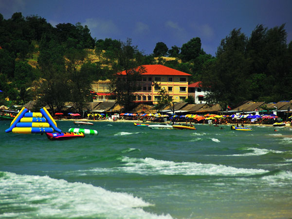 Ochheu Teal Beach, SihanoukVille, Cambodia.